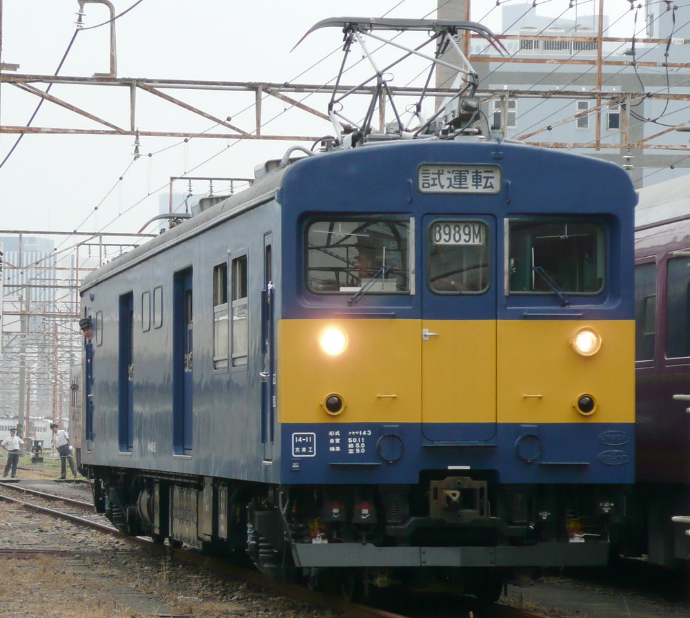 JNR Kumoya 143 series EMU at Tamachi Rolling Stock Center